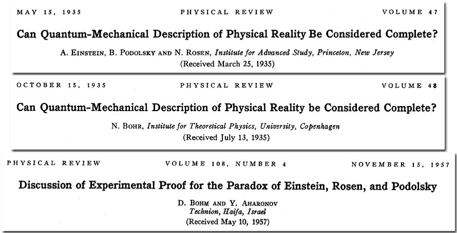 Title sections of milestone papers on the development of the EPR argument. (Moved from english wikipedia!)